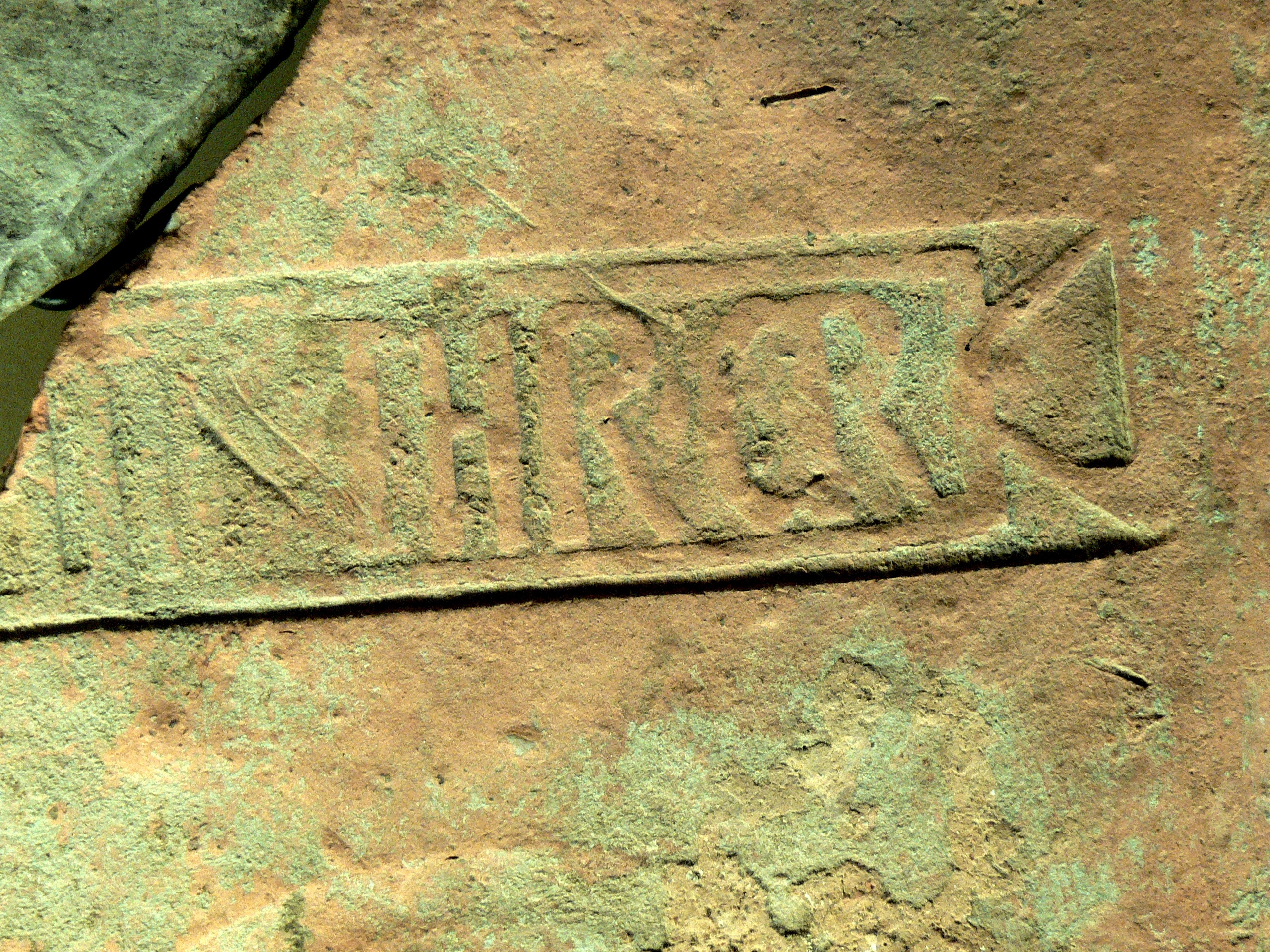 Museum Quintana - Roman department. Ancient Roman stamp on an hypocaust brick, used by the third cohort of Roman citizens from Thrace.